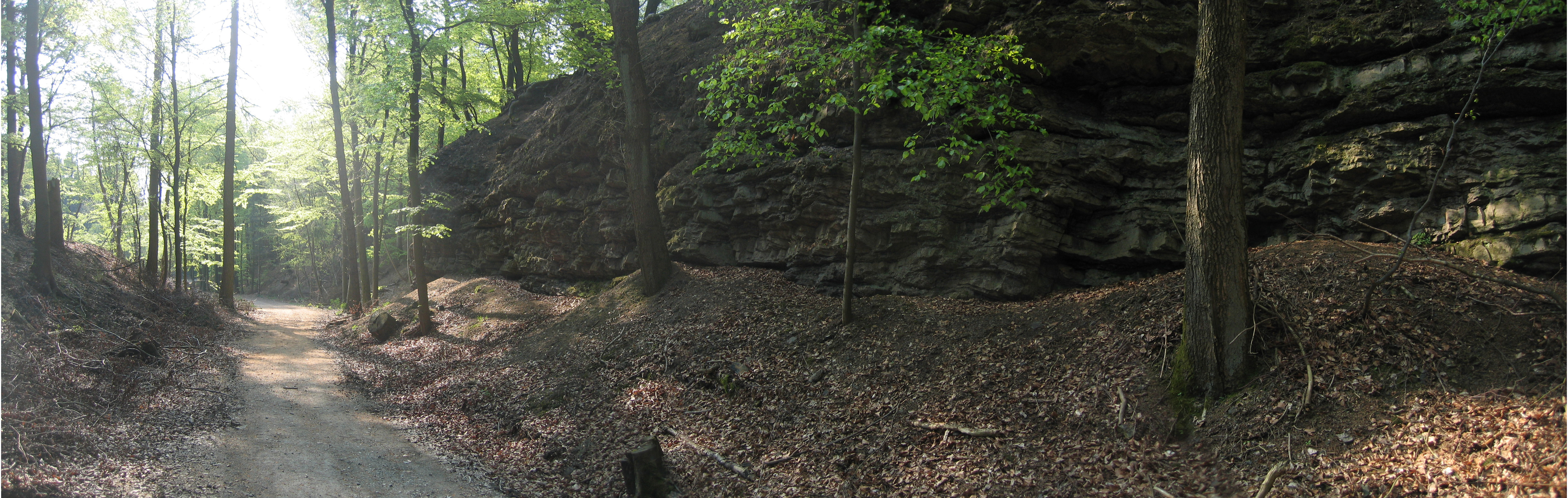 Rocks in Wiehengebirge in Rödinghausen, District of Herford, North Rhine-Westphalia, Germany.